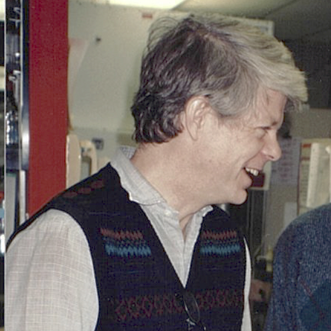 Photo of John Kappler in his lab at National Jewish Health circa 1992-1993